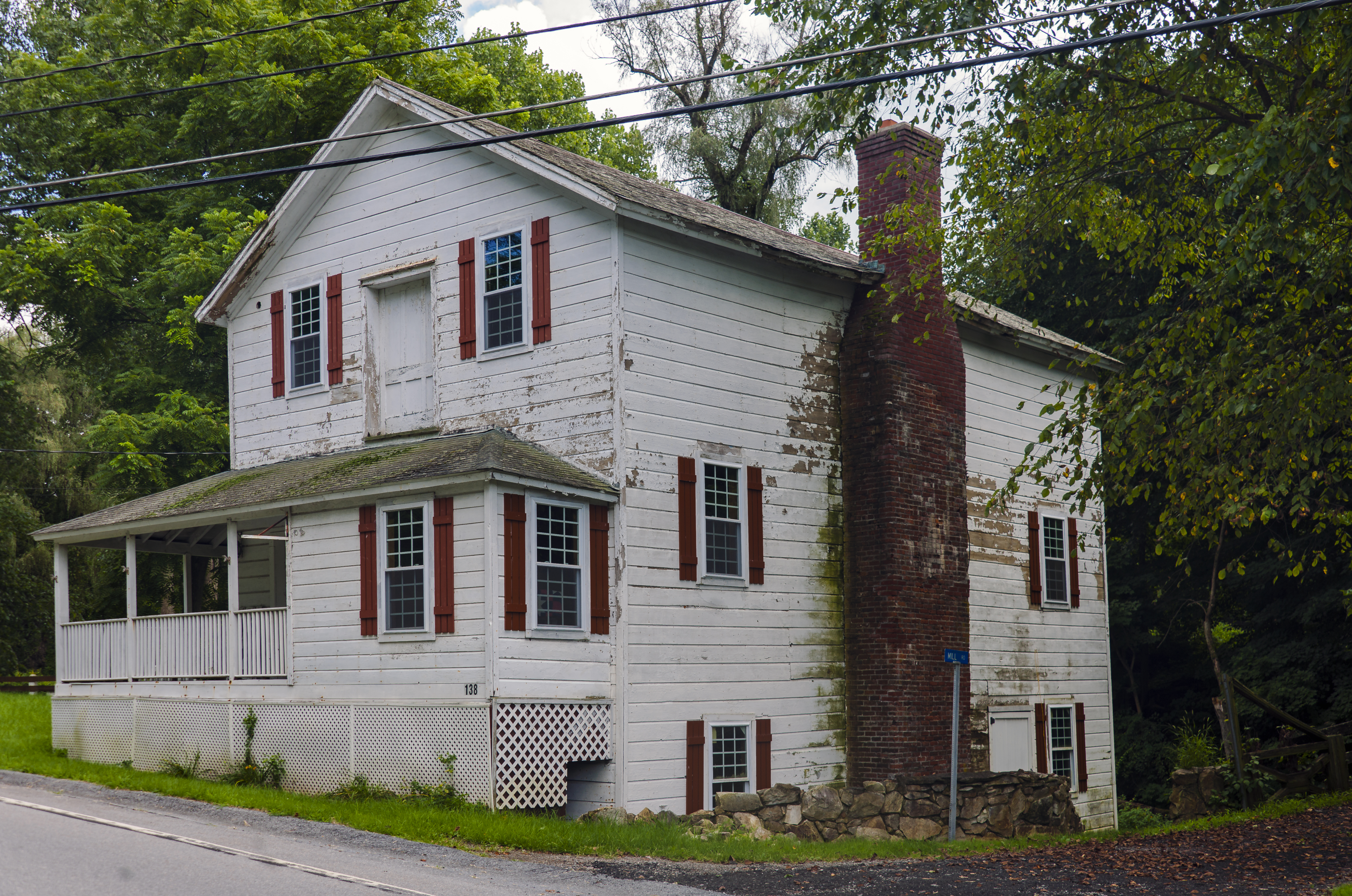 The main house of the Murphy Grist Mill complex at Poughquag, NY, USA. During his first campaign for political office, in 1909, Franklin D. Roosevelt gave a speech here.